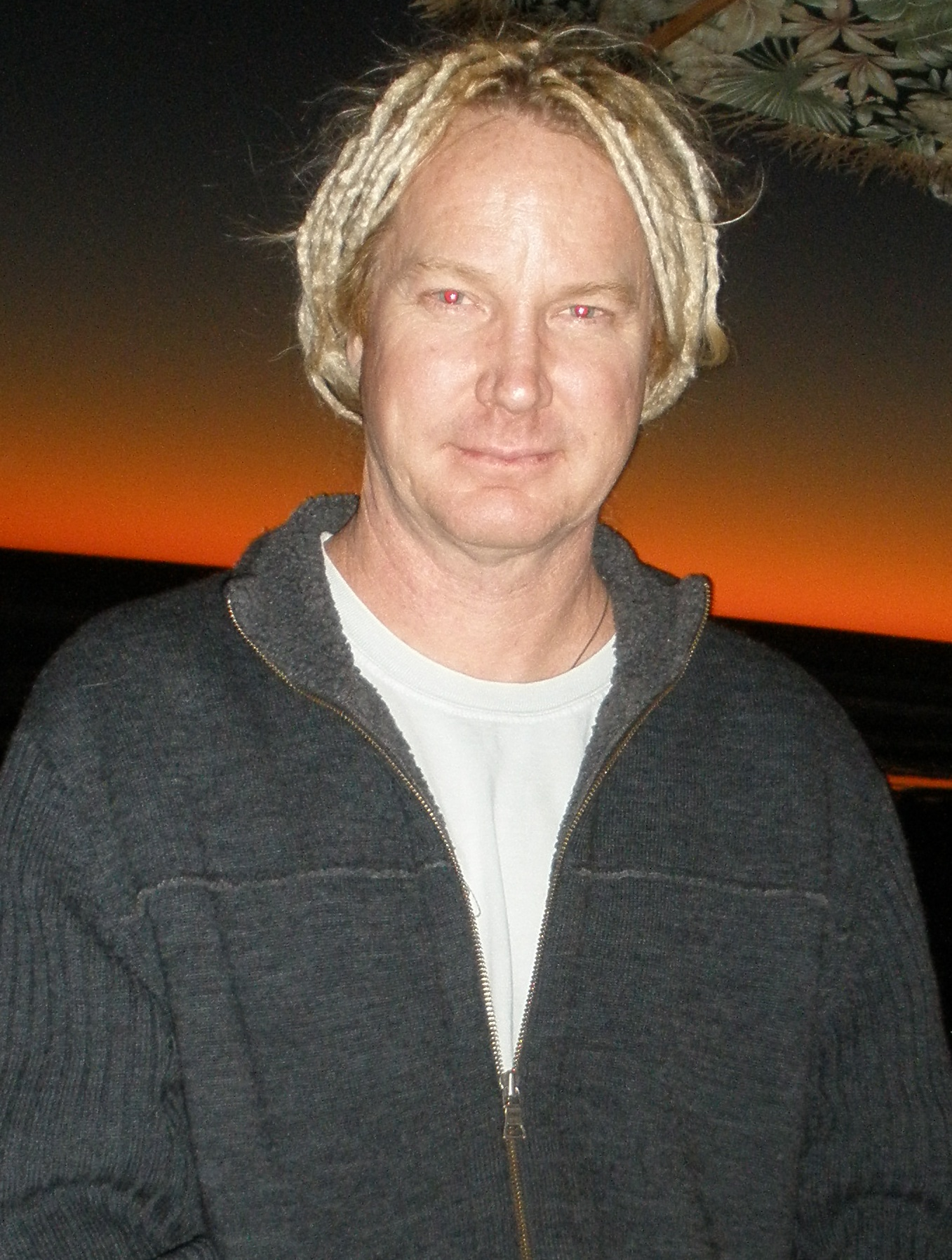 Thomas Tree - Malibu, November, 2011